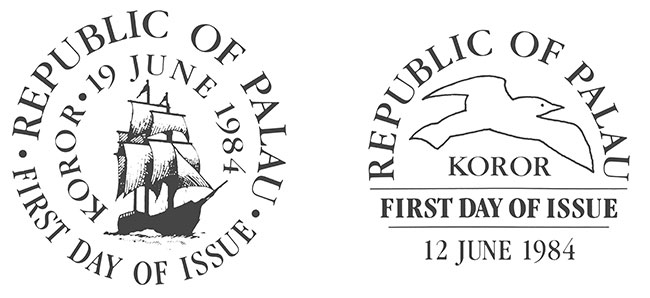 Two stamp cancellations used on the first Palauan bicentenary stamps